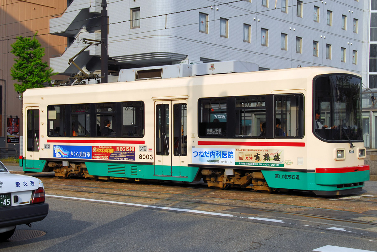 Toyama Chiho Railroad Type 8000 Tram (Vehicle No. 8003, photo taken in front of JR Toyama Station)